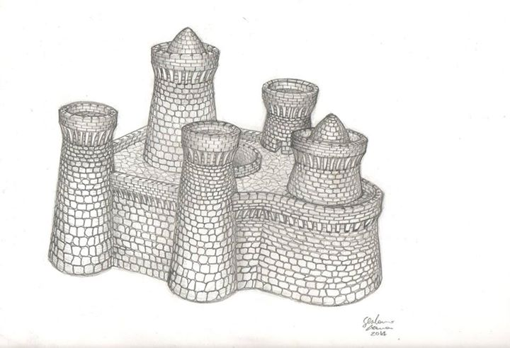 drawing of Nuraghe Fenu by Gerolamo Exana